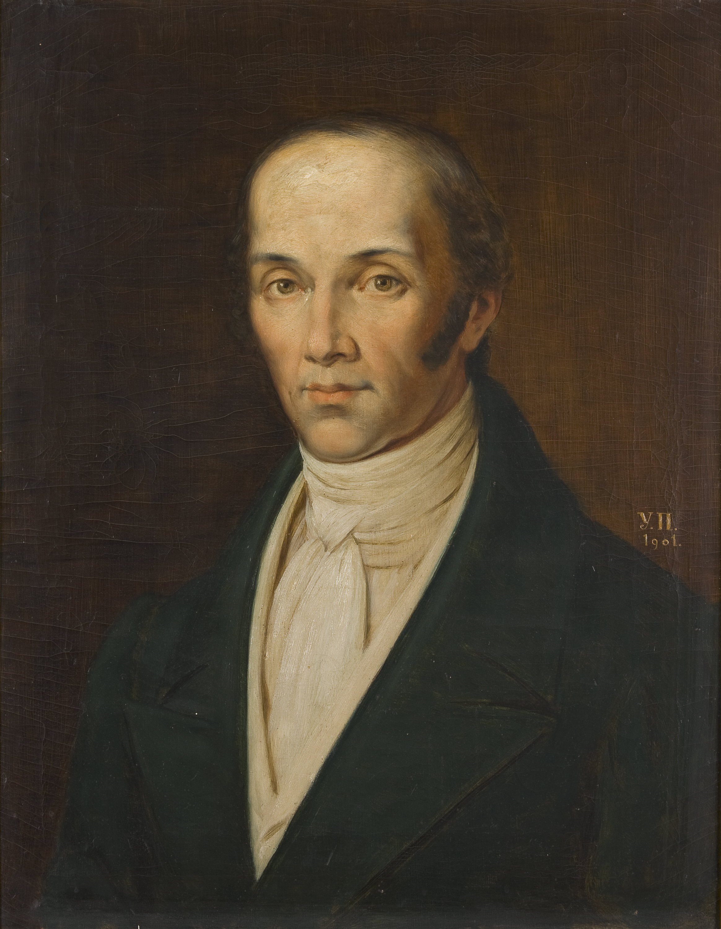 Georgije Magarašević (Adaševci, 1793 - Novi Sad, 1830) , first editor of Serbian scientific journal Letopis Matice srpske